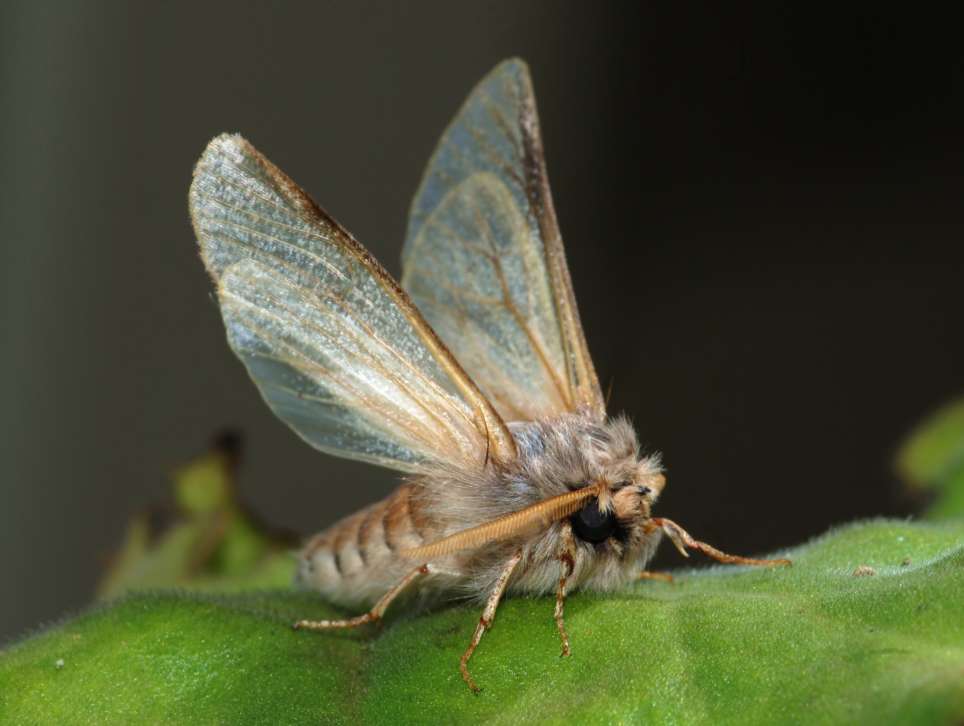 a male Pine Processionary moth (Thaumetopoea pityocampa)